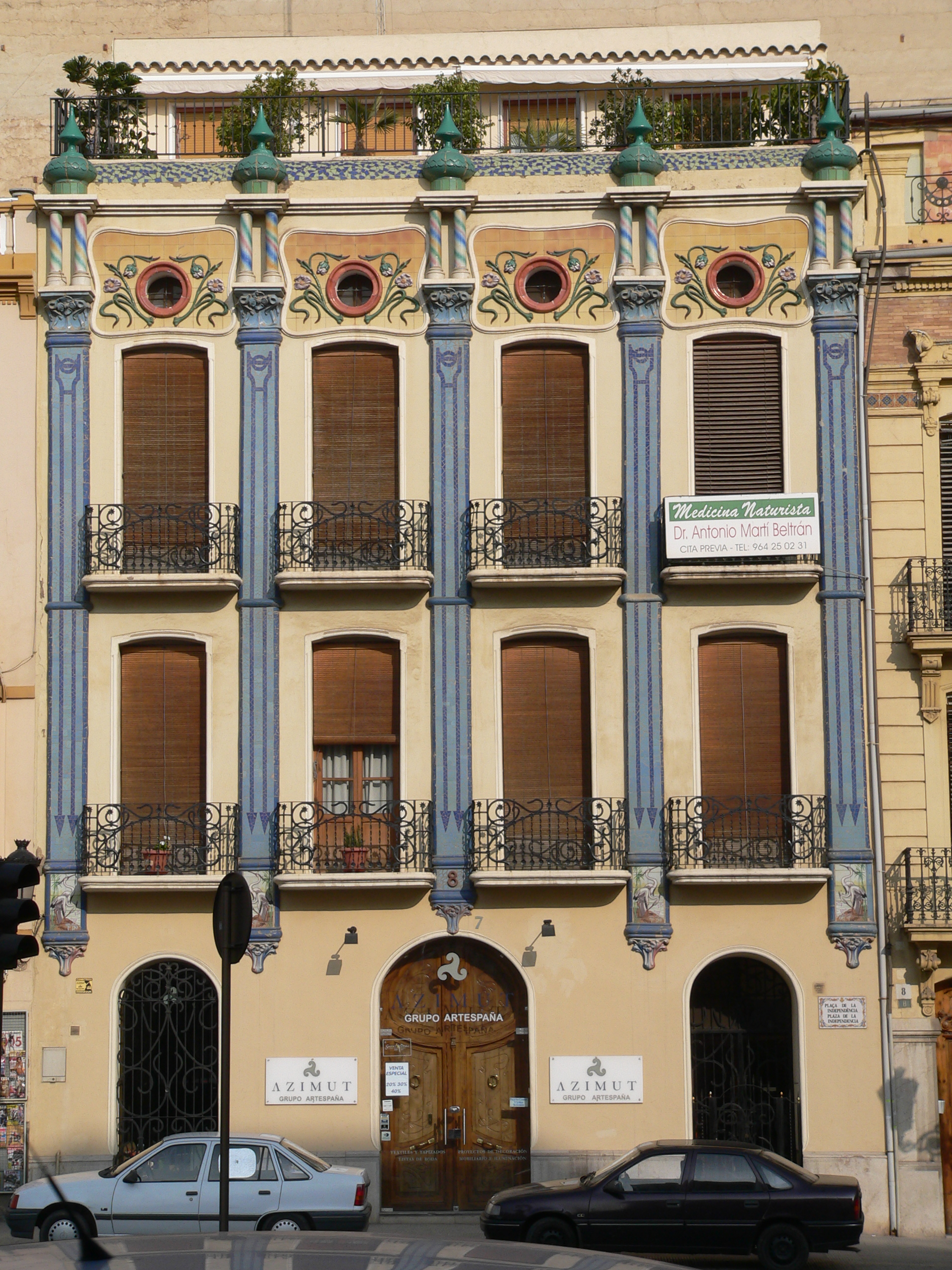 Art Nouveau House Casa de las Cigüeñas, Castellón de la Plana, Spain